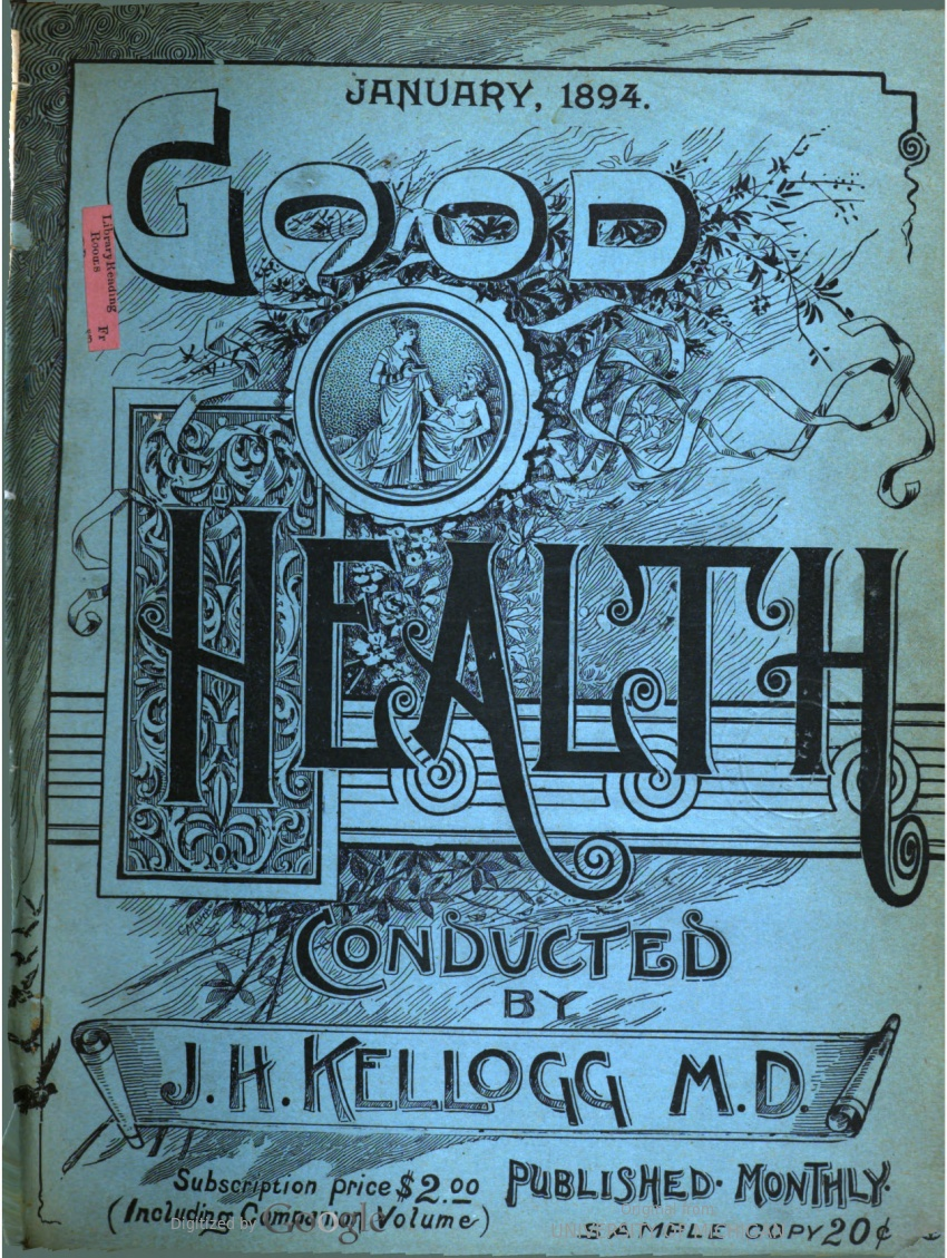 The cover of the Good Health journal (v.29), published in Jan. 1894